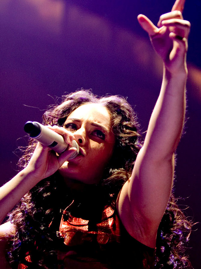 Alicia Keys sing